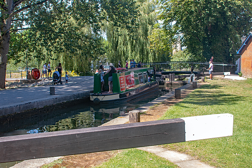 Millmead Lock, Guildford, day trip boat Saxon locking down